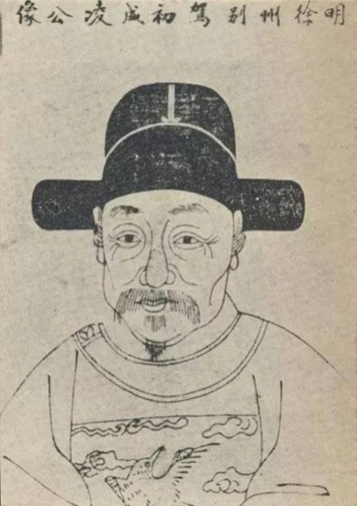 Ling Meng Chu, bureaucrat, writer, novelist of the last Ming Dynasty.